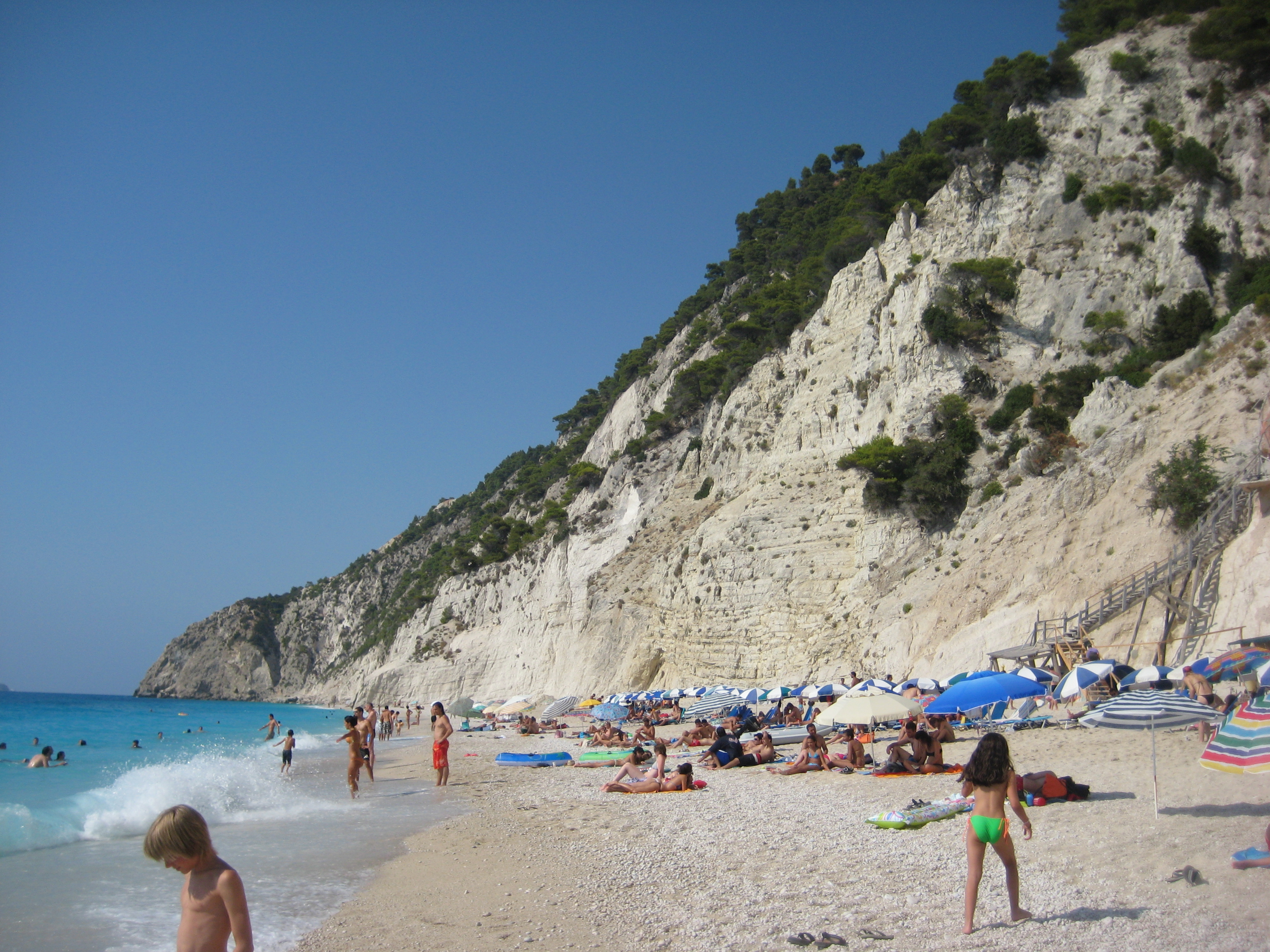 The beach of Egremni, at Lefkada. At the right, you can see the stair which is the end of the (consisted of 347 steep steps) path on the mountain, towards the road. Many argue that this is the most beautiful beach of Lefkada, and not Porto Katsiki.